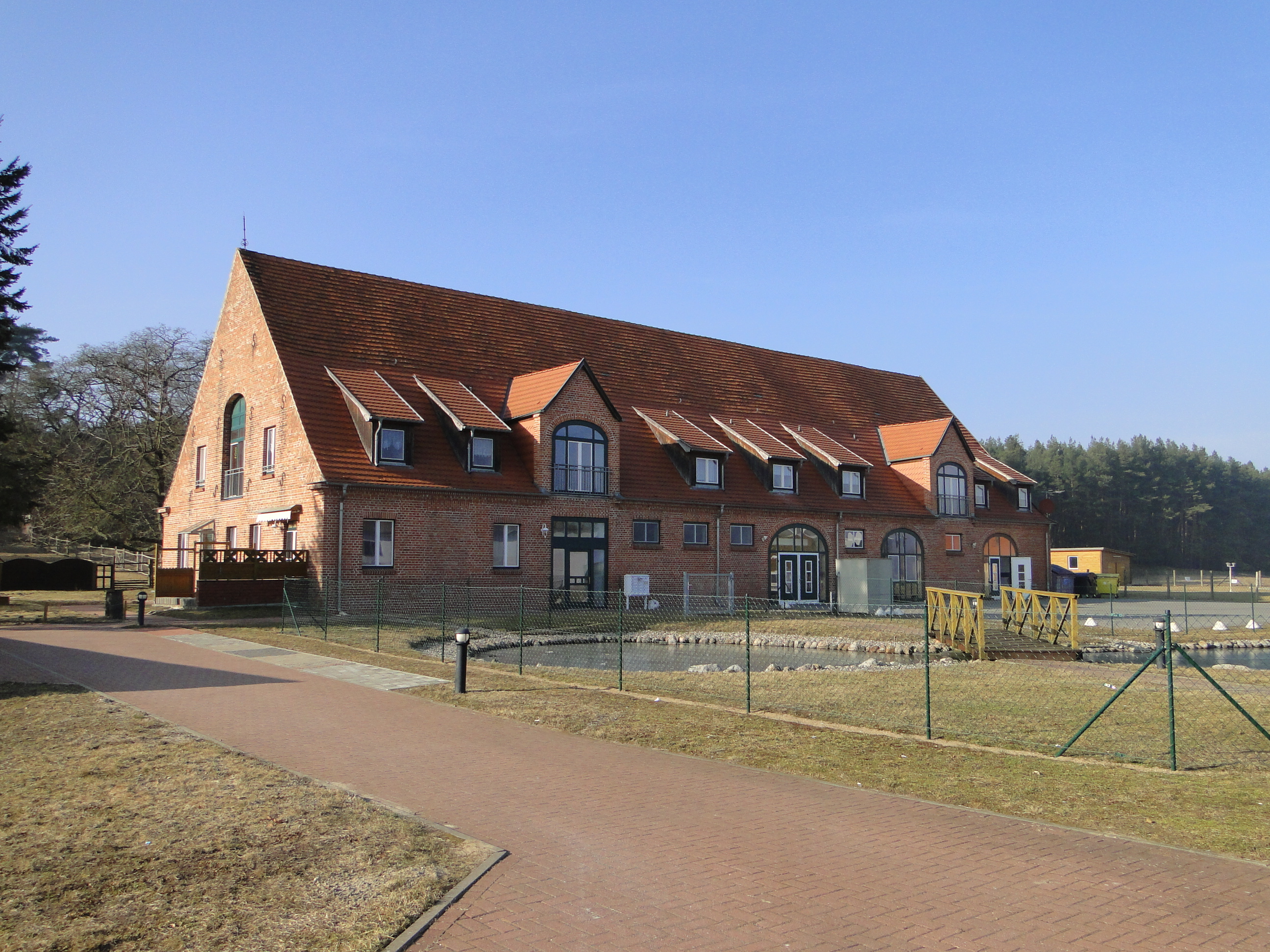 Horse stable at manor in Bossow, district Güstrow, Mecklenburg-Vorpommern, Germany